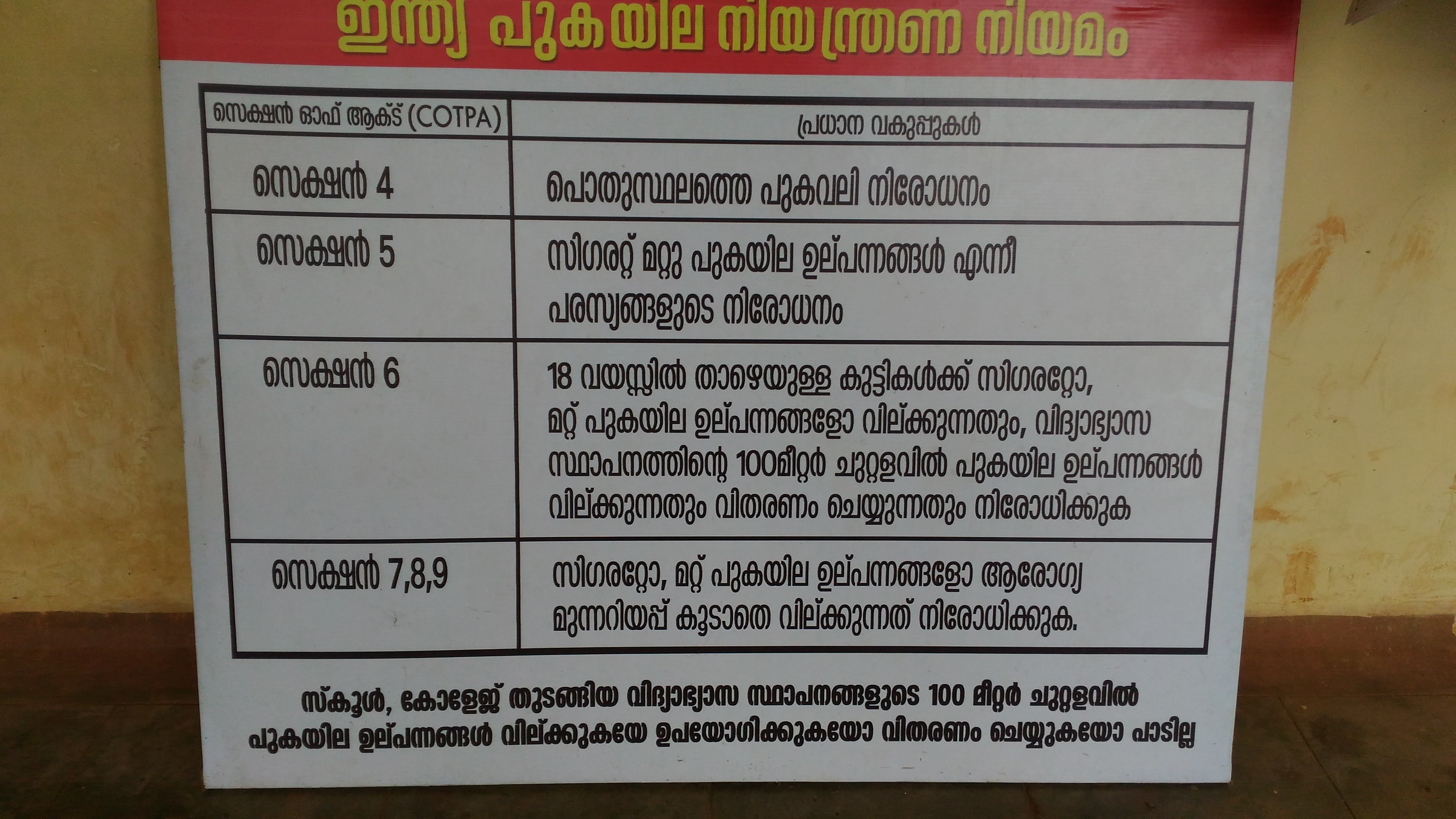 A no tobacco poster at GHSS Thayannur